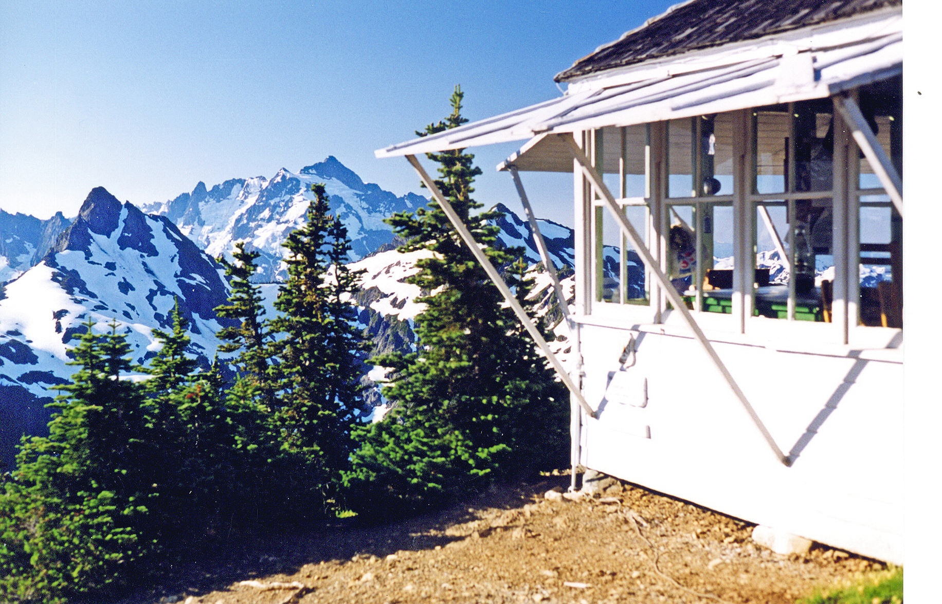 Fire lookout on the top of Winchester Mountain in the North Cascades of Washington state